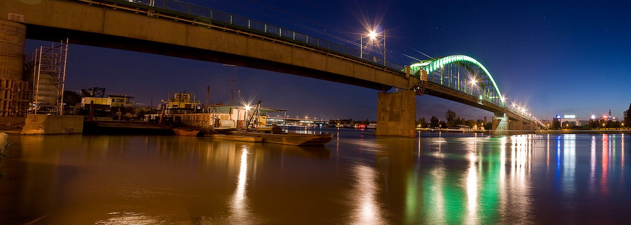 The Sava bridge (tram bridge). Reconstructed bridge with new lighting